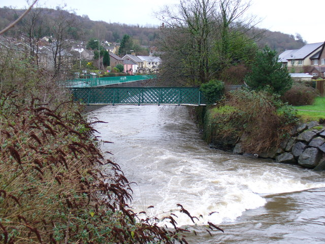 Rhymney River, Machen View looking eastwards from the bridge. The long village has been shaped by the valley and its road.